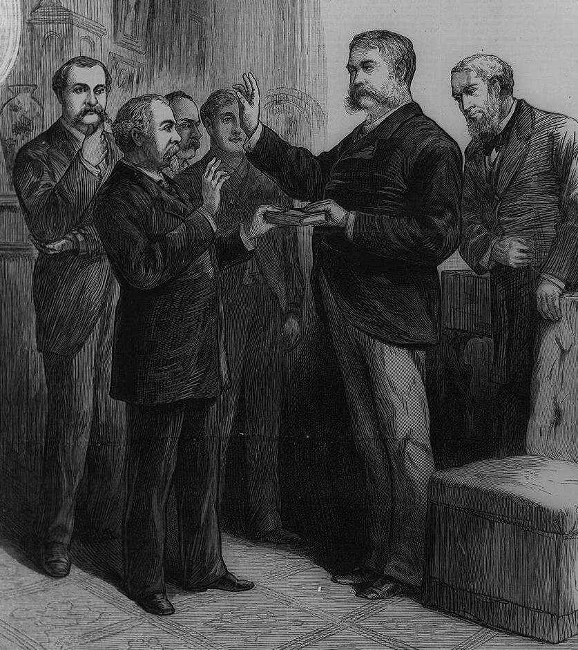 The death of President Garfield--Judge Brady administering the Presidential oath to Vice-President Arthur, at his residence in New York, September 20th. Summary: Justice John R. Brady, Justice of New York State Supreme Court, administering the oath of office to Vice President Arthur in a private ceremony in Arthur's residence at 123 Lexington Avenue, New York.